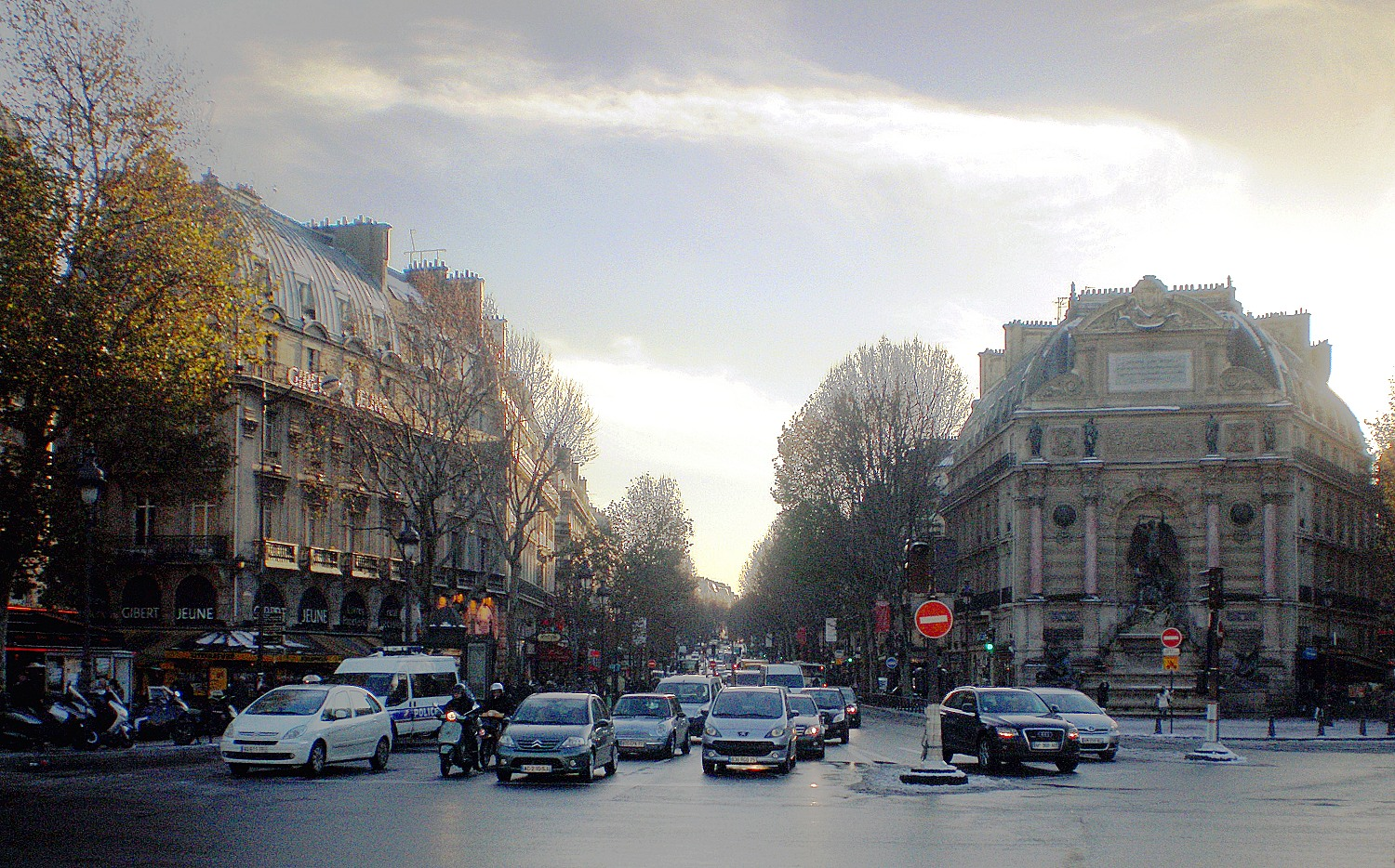 Saint-Michel boulevard - Paris